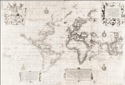 "A Chart of the World on Mercator's Projection" (c. 1599), sometimes known as the Wright–Molyneux Map. Based on Edward Wright's projection of a globe engraved by English globe-maker Emery Molyneux in 1592, it was the first map to use Wright's improvements on Mercator's projection and was regarded as 16th-century cartographic landmark. Unlike many contemporary maps and charts that represented the often fantastic speculations of their makers, Wright's map has a minimum of detail and leaves areas blank wherever geographic information was lacking. These undefined areas are especially evident along Wright's coastlines. Wright's map is also one of the earliest maps to use the name "Virginia". The map is alluded to in Shakespeare's Twelfth Night, when Maria says teasingly of Malvolio: "He does smile his face into more lynes, than is in the new Mappe, with the augmentation of the Indies." See Novus Orbis: Images of the New World, part 3. Lewis & Clark: The Maps of Exploration 1507–1814, Albert H. and Shirley Small Special Collections Library, University of Virginia (2008-01-31). Retrieved on 2008-02-07. Note: the 1599 version of this map was enlarged by William Kip in 1610 and heavily updated by Joseph Moxon in 1655 (published in 1657), incorporating the wealth of discoveries stemming from the many voyages of discovery from 1599 to 1655. The 1657 Wright-Moxon Map is often confused with the 1599 Wright-Molyneux Map.